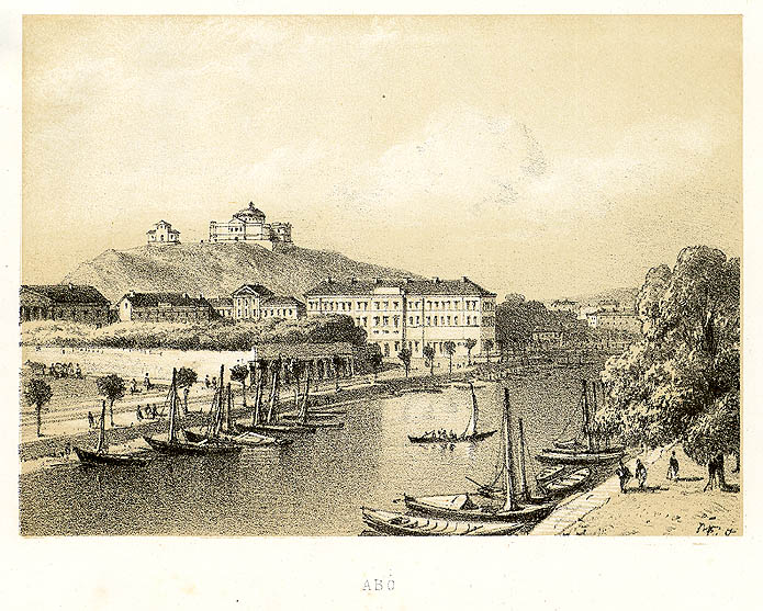 Turku in 1856